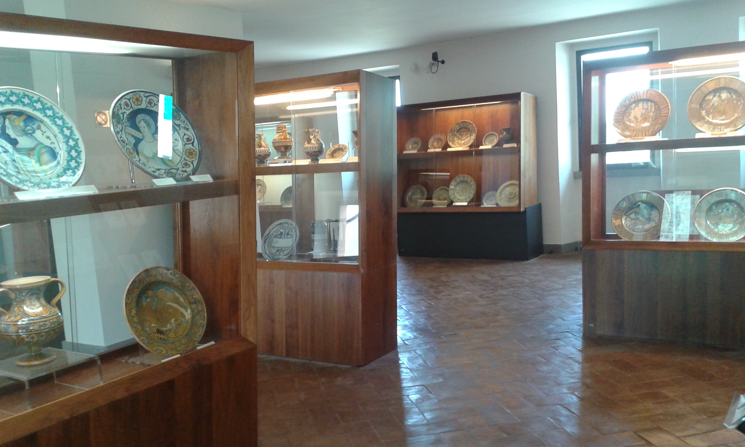 sala del rinascimento